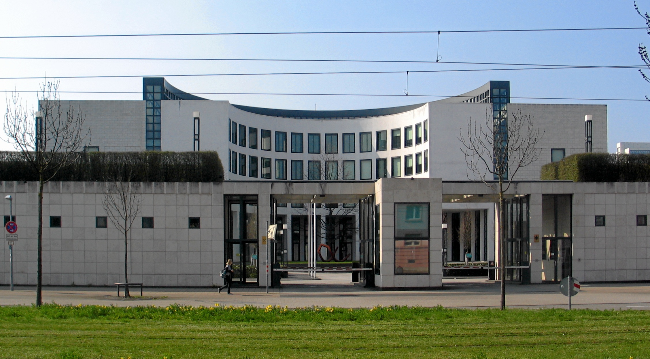 Seat of the Attorney General of Germany (Karlsruhe)